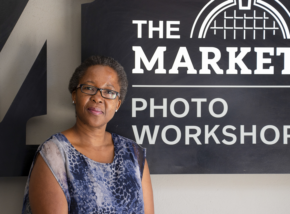 Ruth Seopedi Motau photographed at the Market Photo Workshop on the 17th of October 2019